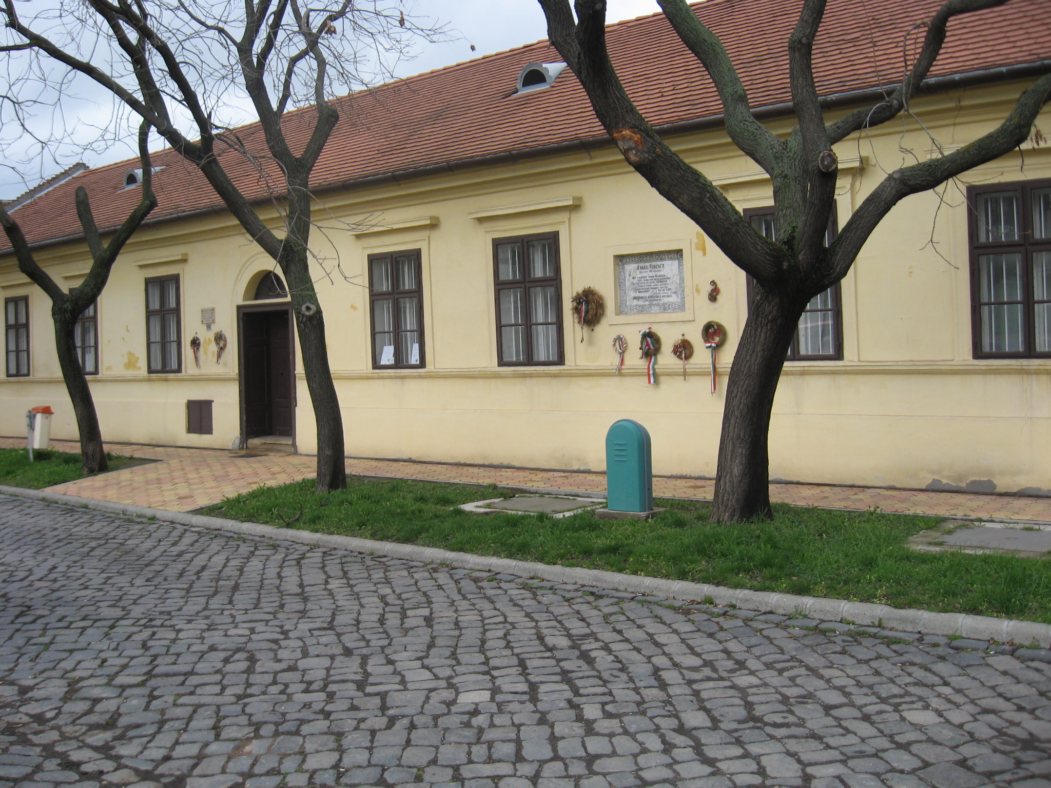 Birthplace or Ferenc Erkel